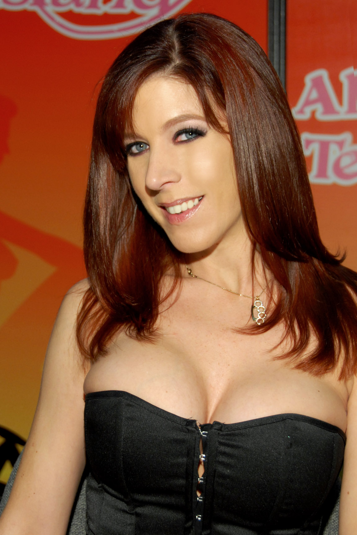 Lexi Lamour attending the Exxxotica Expo at the Los Angeles Convention Center, Los Angeles, California on July 09, 2010 - Photo by Glenn Francis of